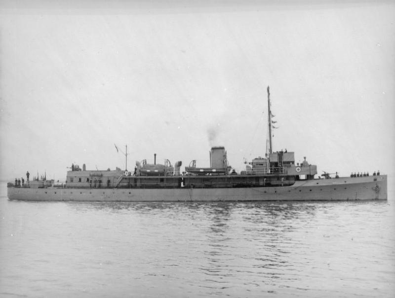 Photograph of British Hunt class minesweeper HMS Alresford